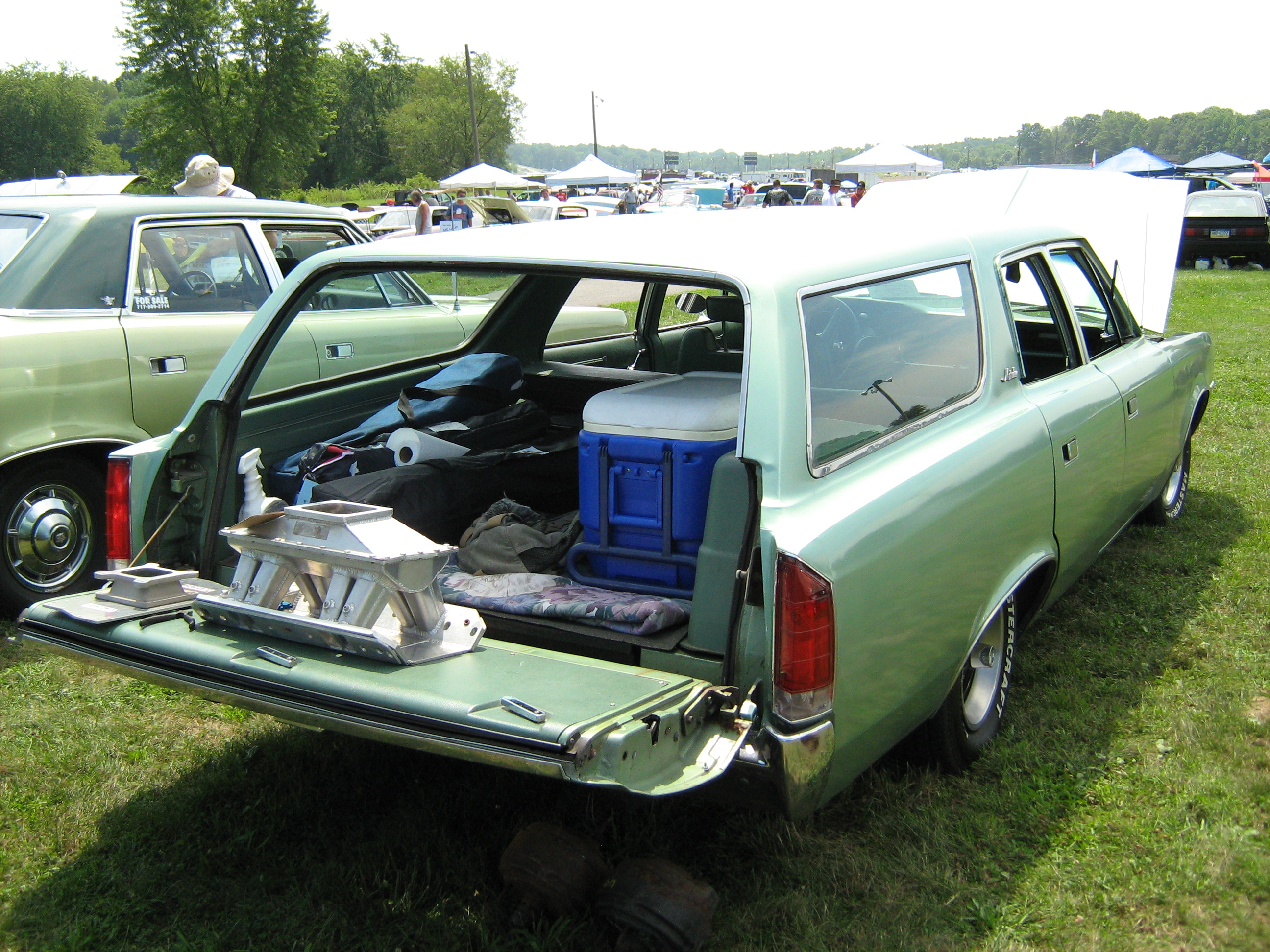 1973 AMC Matador (base model), an "intermediate-sized" station wagon made by American Motors Corporation (AMC). Rear view of the two way tailgate open down, showing the roomy rear cargo area. Picture taken at an AMC show held at the Cecil County Dragstrip in Maryland.